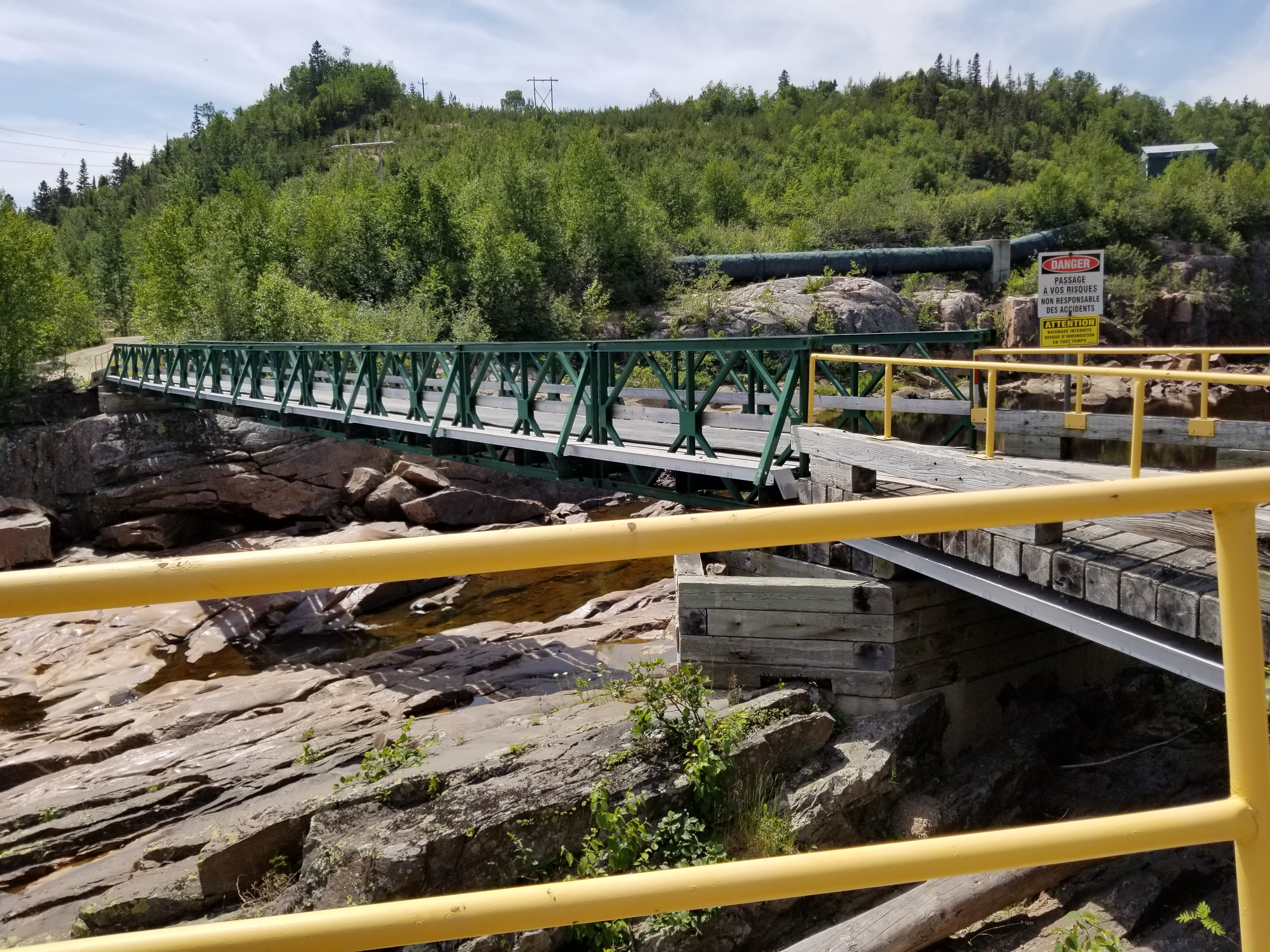 Bridge near the mouth of the Sault aux Cochons River at the bottom of the hydroelectric dam.